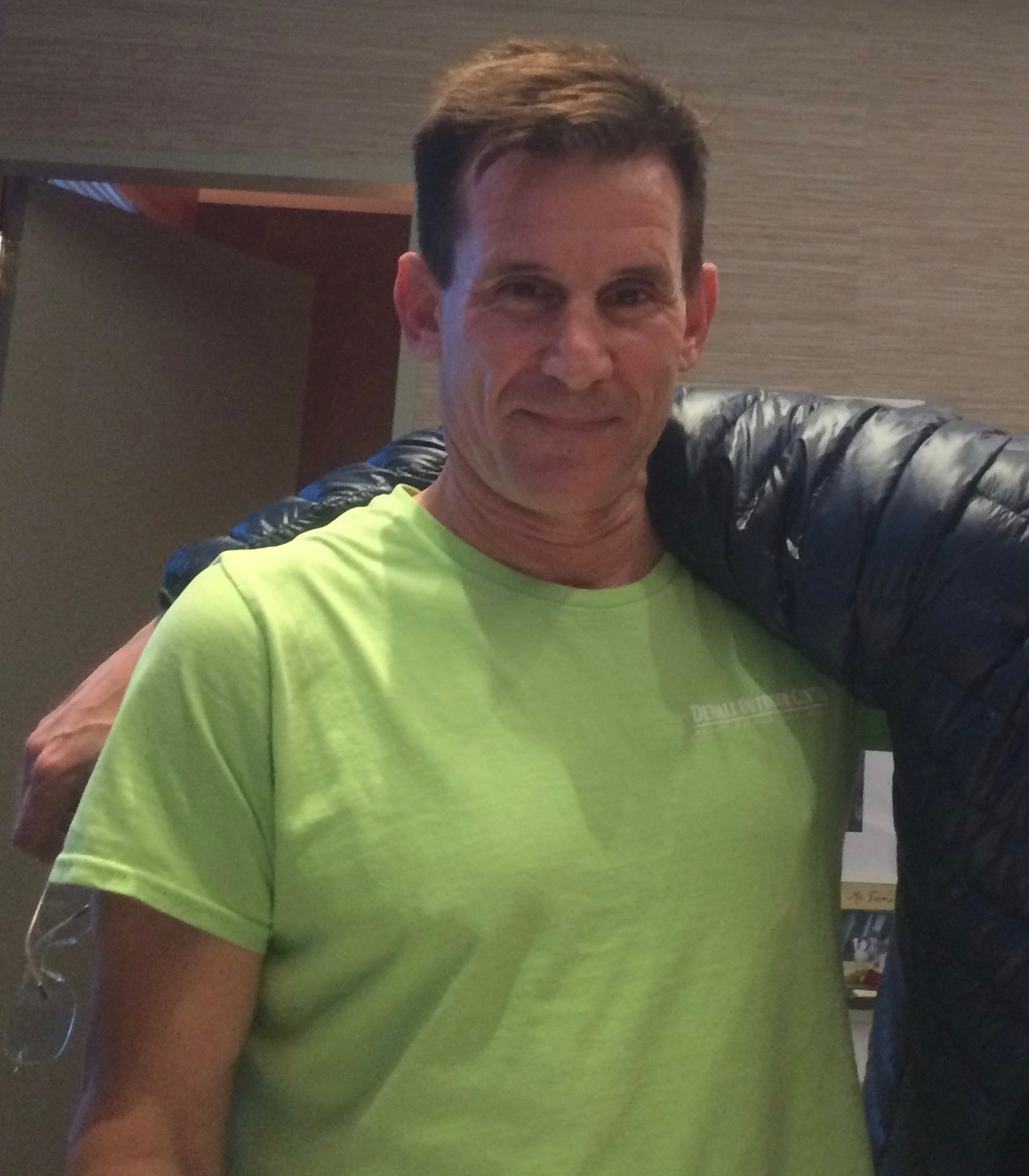 Actor and activist Andrew Lauer in 2016